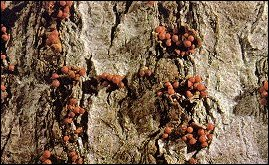 Sexual fruiting bodies (perithecia) of N. coccinea var. faginata (about 0.3 mm in diameter)